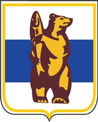 Anadyr (Chukotka AO), coat of arms (1989)